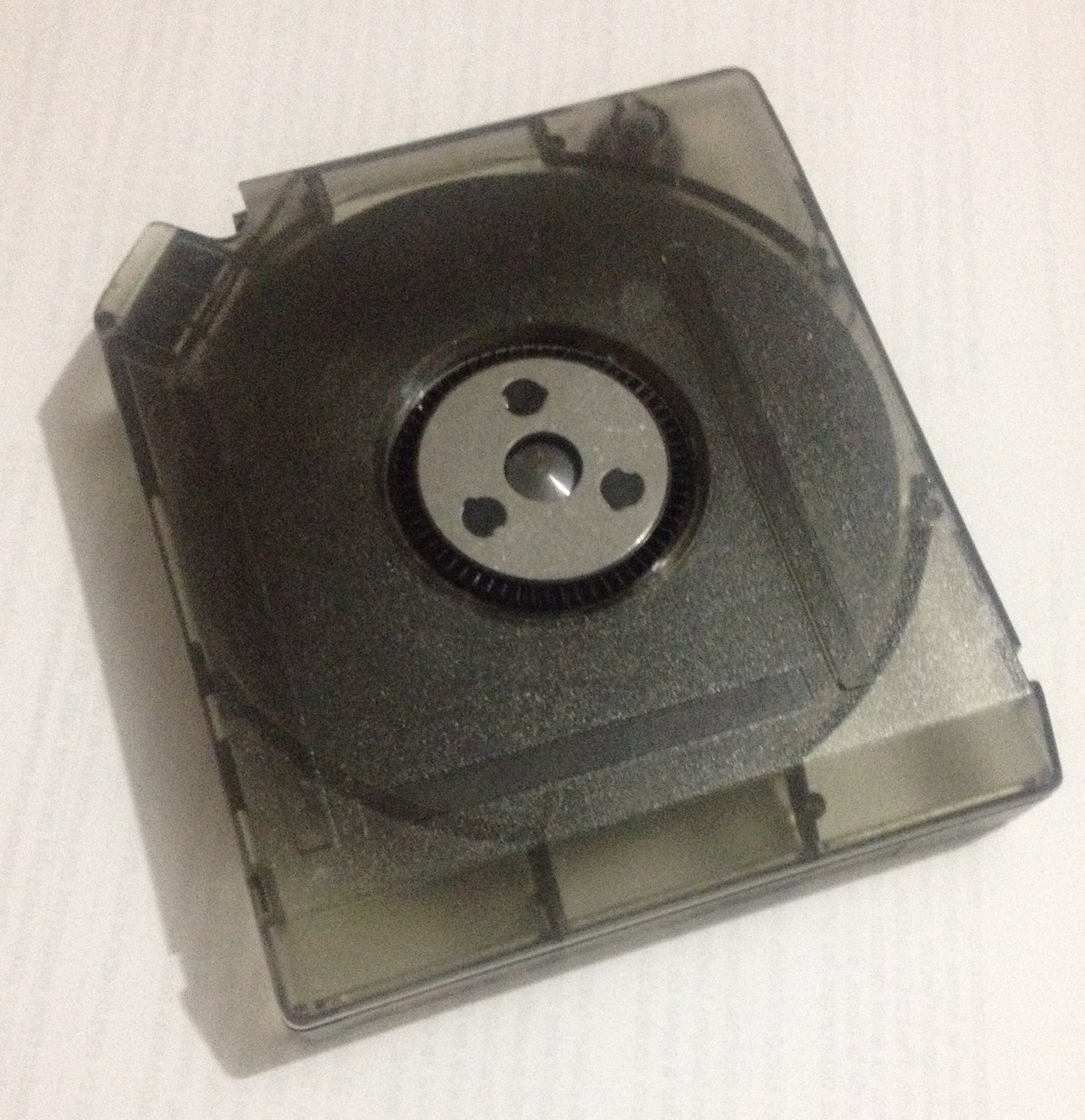 The 3480 tape format is a magnetic tape data storage format developed by IBM. The tape is one half inch wide and is packaged in a 4"x5"x1" cartridge. The cartridge contains a single reel; the takeup reel is inside the tape drive.